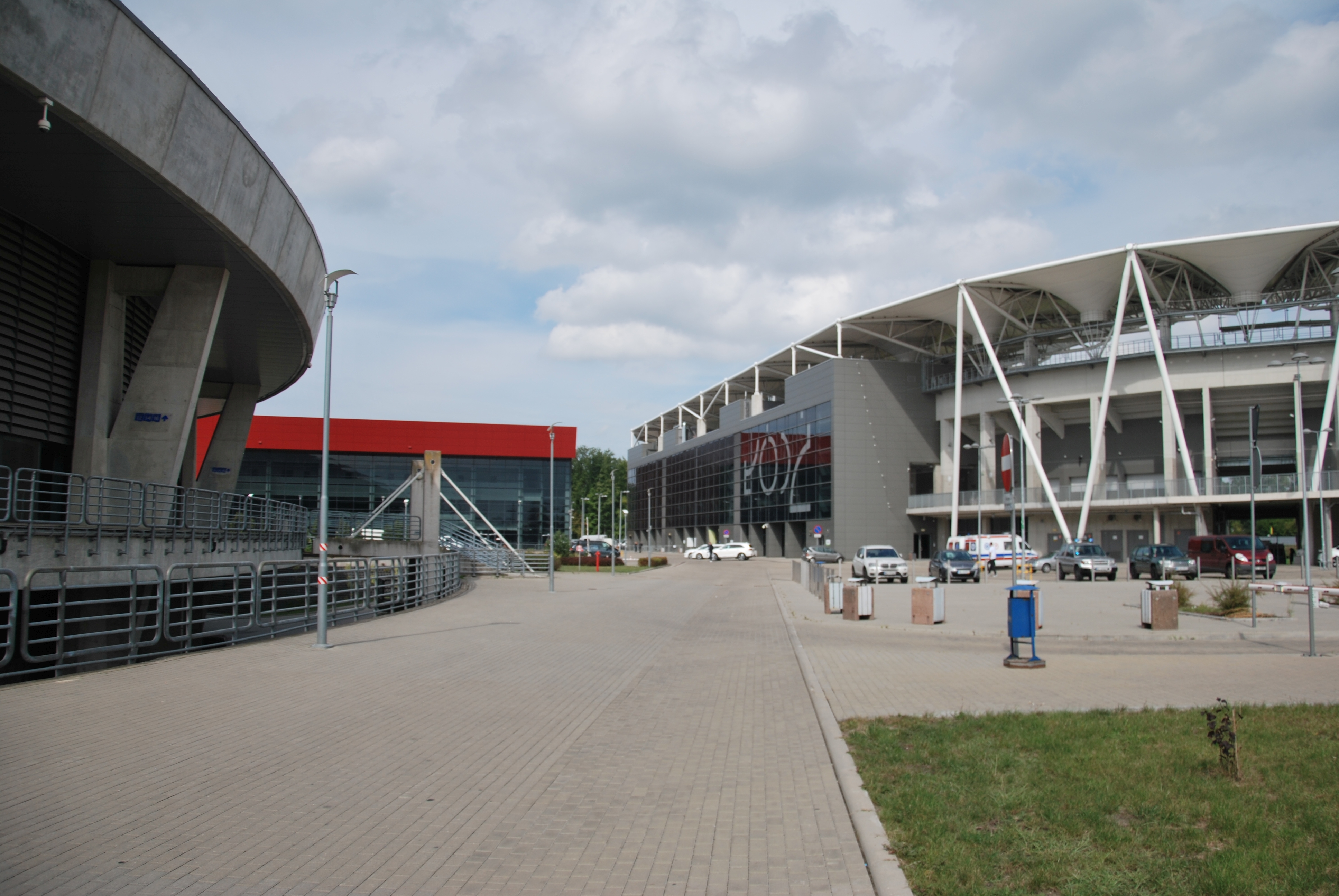 Three sports arenas in Łódź: Atlas Arena, Łódź Sport Arena and ŁKS stadium